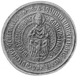 Seal of the Cracow (Kraków) University from the times of Władysław Jagiełło